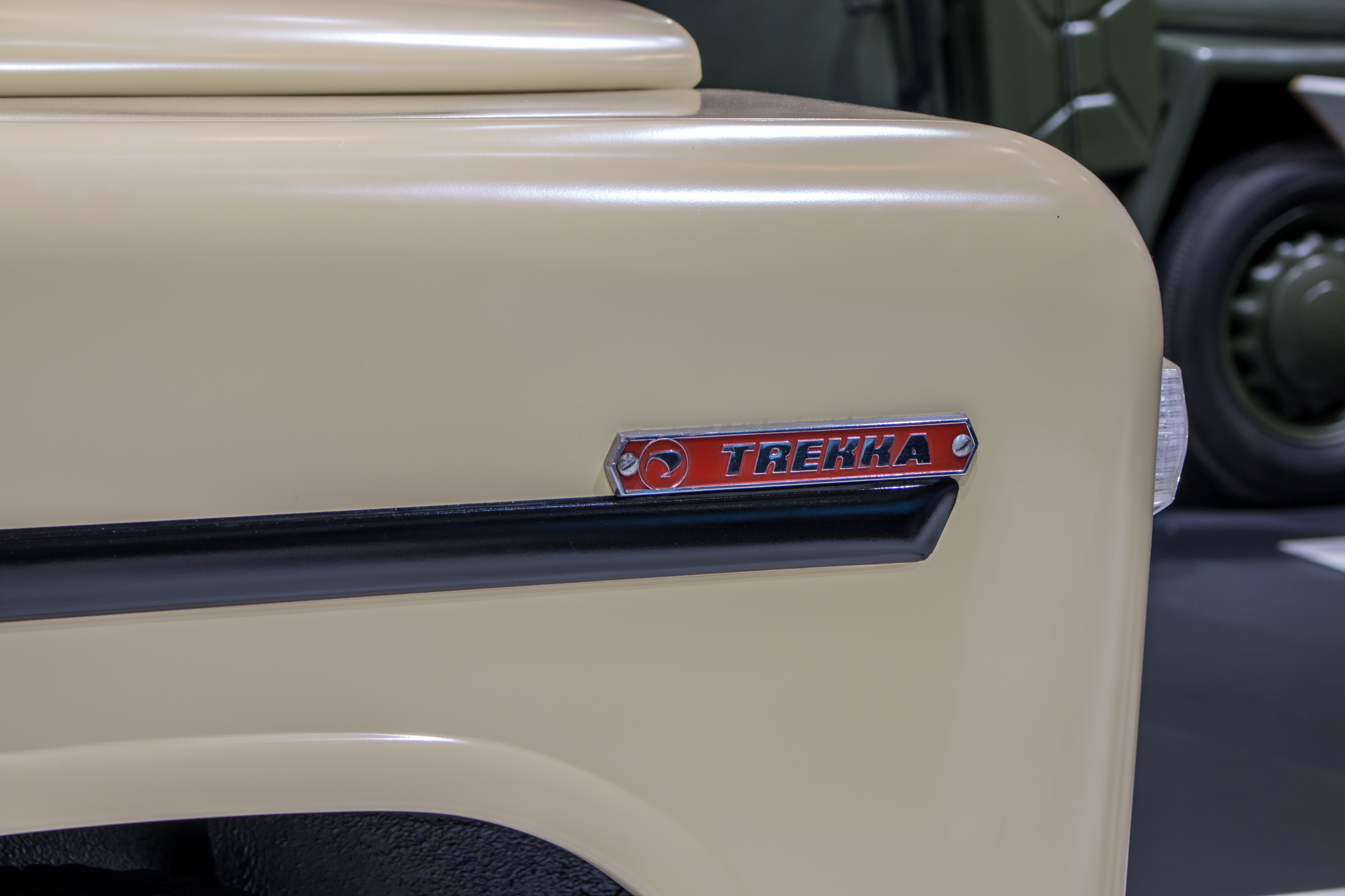 Trekka at Techno-Classica 2018, Essen